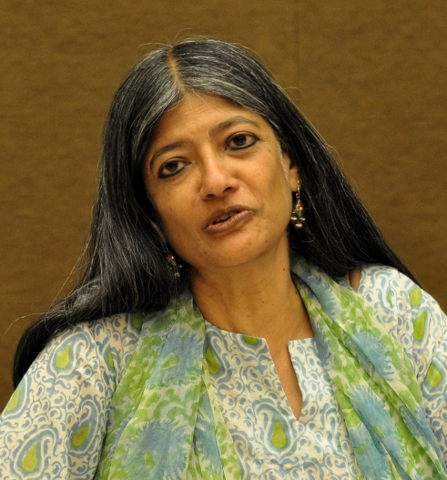 Ms. Jayati Ghosh, Professor of Centre for Economic Studies and Planning, Jawaharlal Nehru University, India, at the Macroeconomic Dimensions of Inequality Round Table